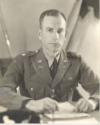 John Magruder (June 3, 1887 - April 30, 1958) was a Brigadier general in the U.S. Army. Among his offices was that of Deputy Director for Intelligence for the Office of Strategic Services.